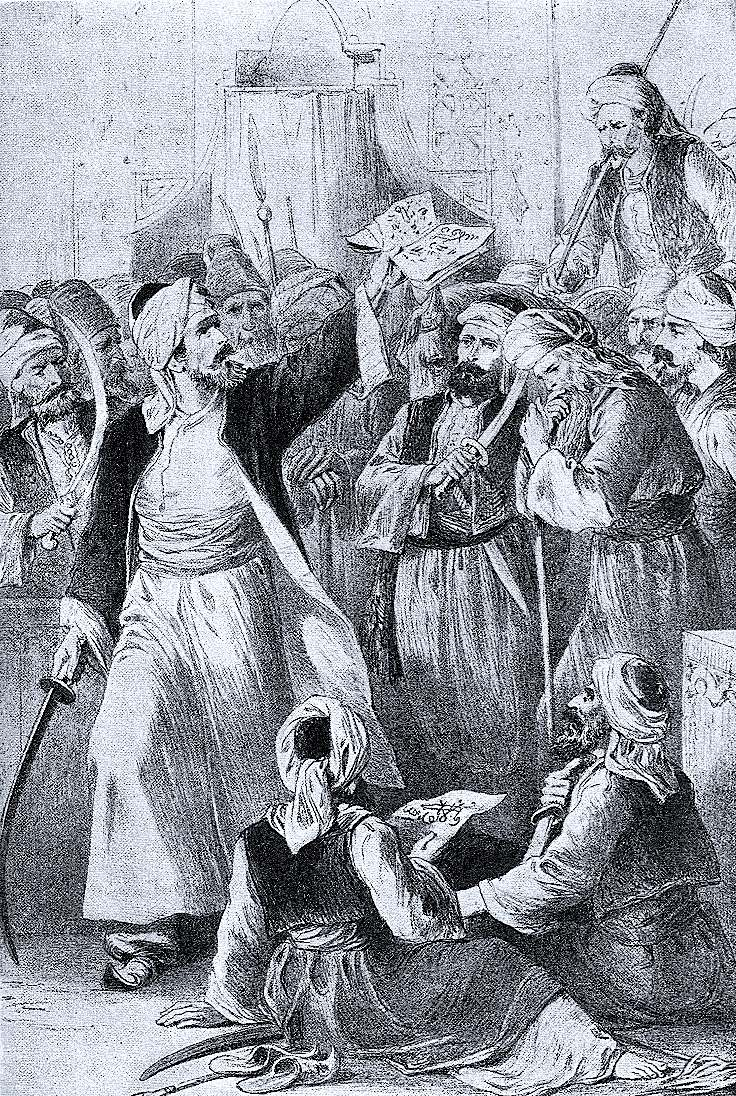 Title: "Osman"Description: The Turkish leader Osman (the man holding up a parchment) is considered the founder of the Ottoman Empire. Beginning in the late 1200s, he consolidated a small kingdom from settlements on the fringe of the Byzantine Empire. After his death in 1324, his descendants continued to expand the kingdom until it became one of history’s most powerful empires.Source: Culver Pictures